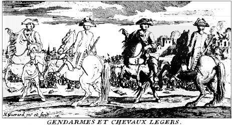 Gendarmes and Chevaux-Légers from Maison du Roi